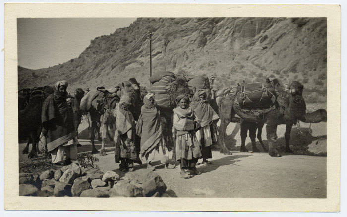 On the Khyber Road," a silver gelatin photo, c.1900